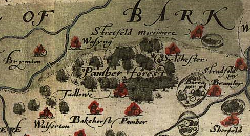 Pamber Forest as shown on Christopher Saxton's c.1575 map of Hampshire